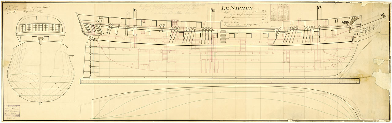 NIEMEN FL.1809 [FRENCH] lines & profile